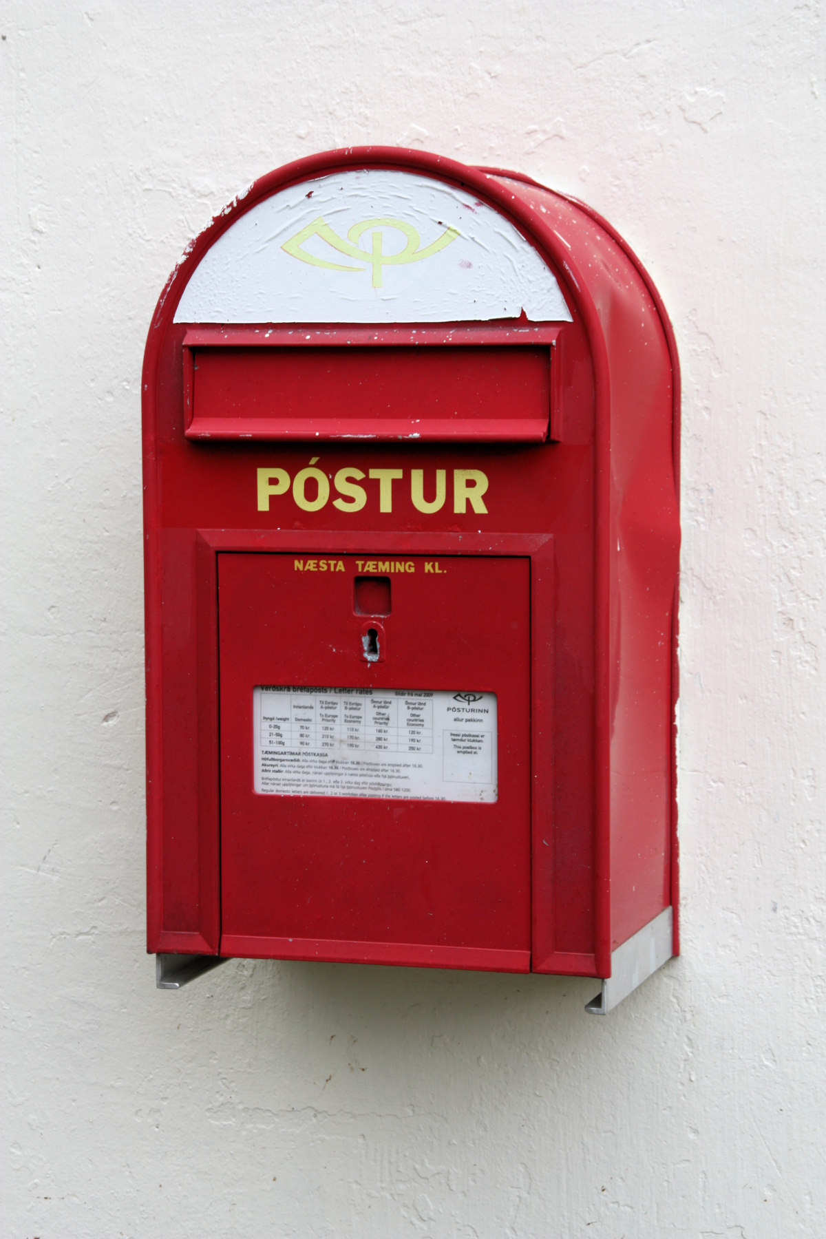 Post box in Seydisfjordur (Seyðisfjörður), Iceland.